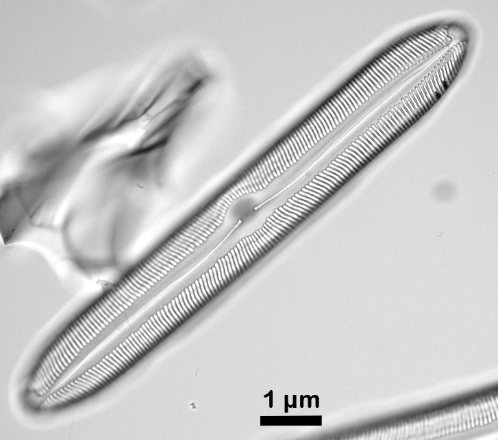 Shell of Pinnularia opulenta, a diatom. Recorded with a 63x NA 1.4 objektiv